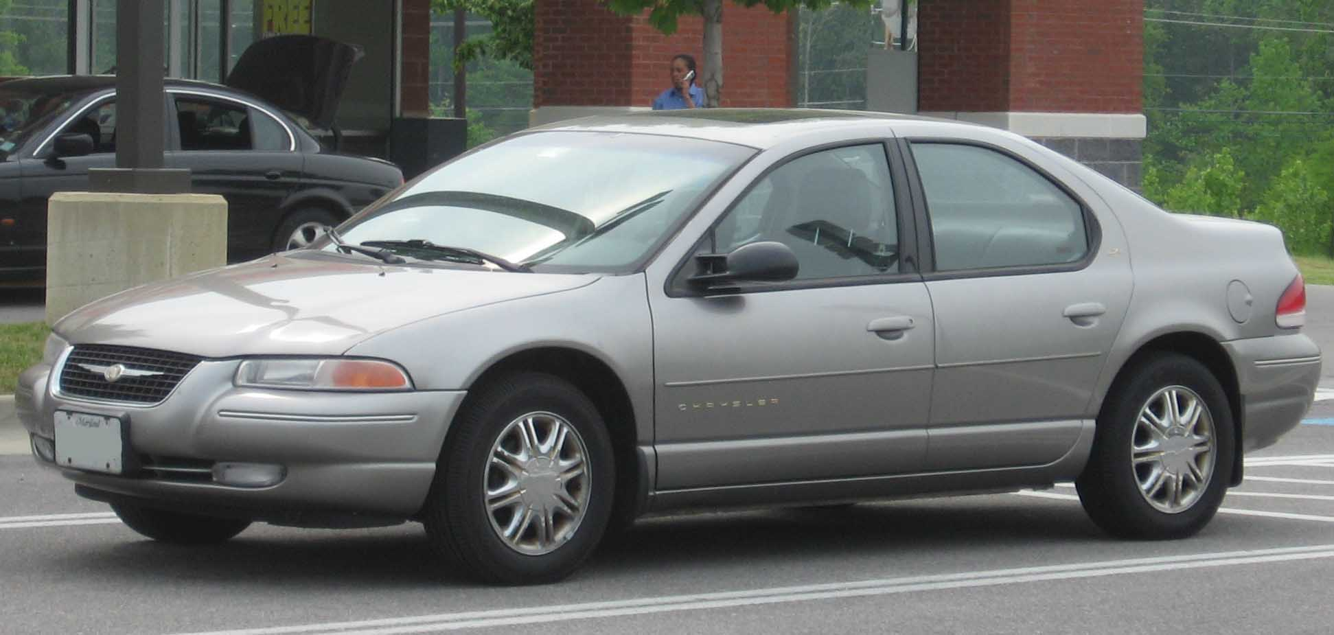 1999-2000 Chrysler Cirrus photographed in Accokeek, Maryland, USA.